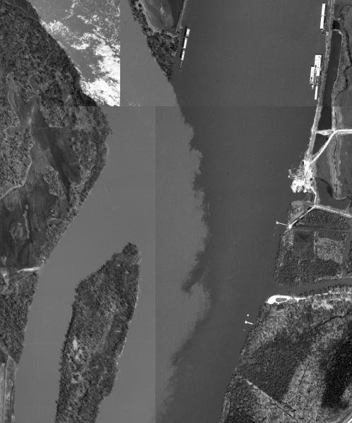 Description: Confluence of the Missouri and Mississippi rivers. Caption:: The waters of the Missouri River (left) are much lighter than the Mississippi River into which it flows because of its high silt content. Source: USGS image downloaded from Microsoft Research Maps (formerly TerraServer-USA) [1]: The images on MSR Maps from the USGS are free for download and distribution.[2]